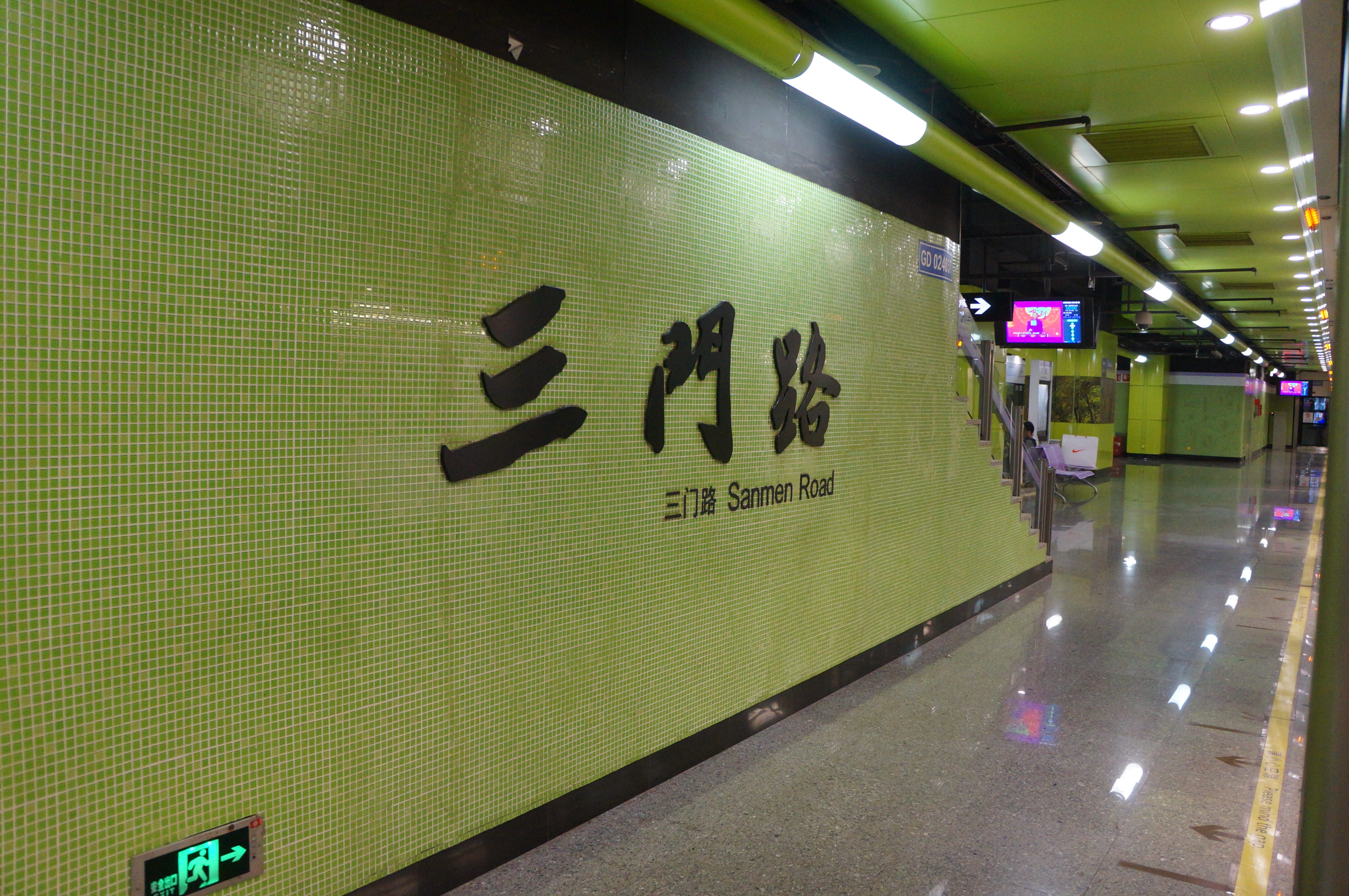 201704 Nameboard of Sanmen Road Station